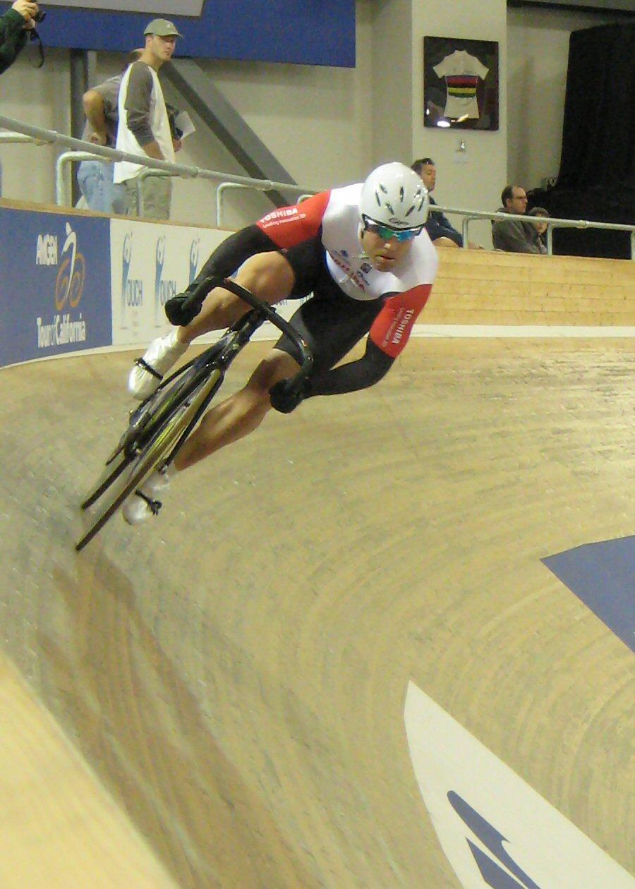 2008 World Cup Cycling, Los Angeles. Day 3, sprint qualifying.